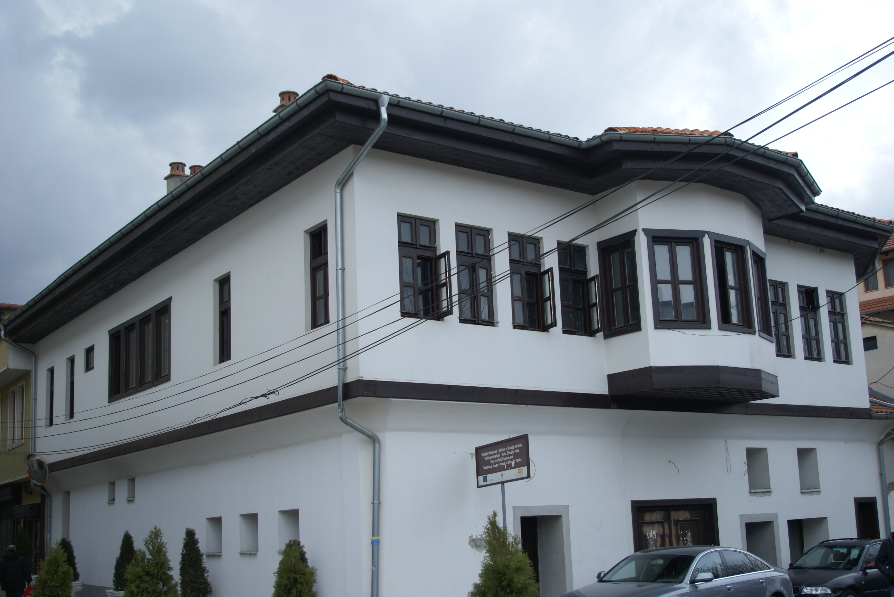 Shtepia e Shuaip Pashes